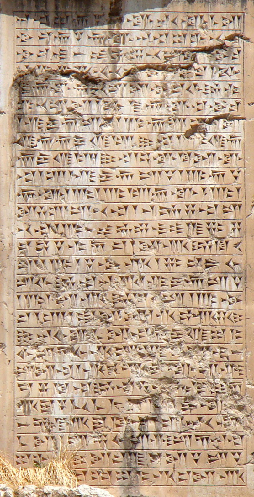 Inscription in Elamite, in the Xerxes I inscription at Van, 5th century BCE "Ahuramazda is the great god, the greatest god who created the sky and created the land and created humans Who gave prosperity to the humans Who made Xerxes king King of many kings, being the only ruler of the totality of all lands “I am Xerxes, the great king, the king of kings, the king of the lands, king of all the languages, king of the great and large land, the son of king Darius the Achaemenian” The king Xerxes says: “the king Darius, my father, praised be Ahuramazda, made a lot of good, and this mountain, he ordered to work its cliff and he wrote nothing on it so, me, I ordered to write here. May Ahuramazda protect me, with all the gods and so my kingdom and what I have done."